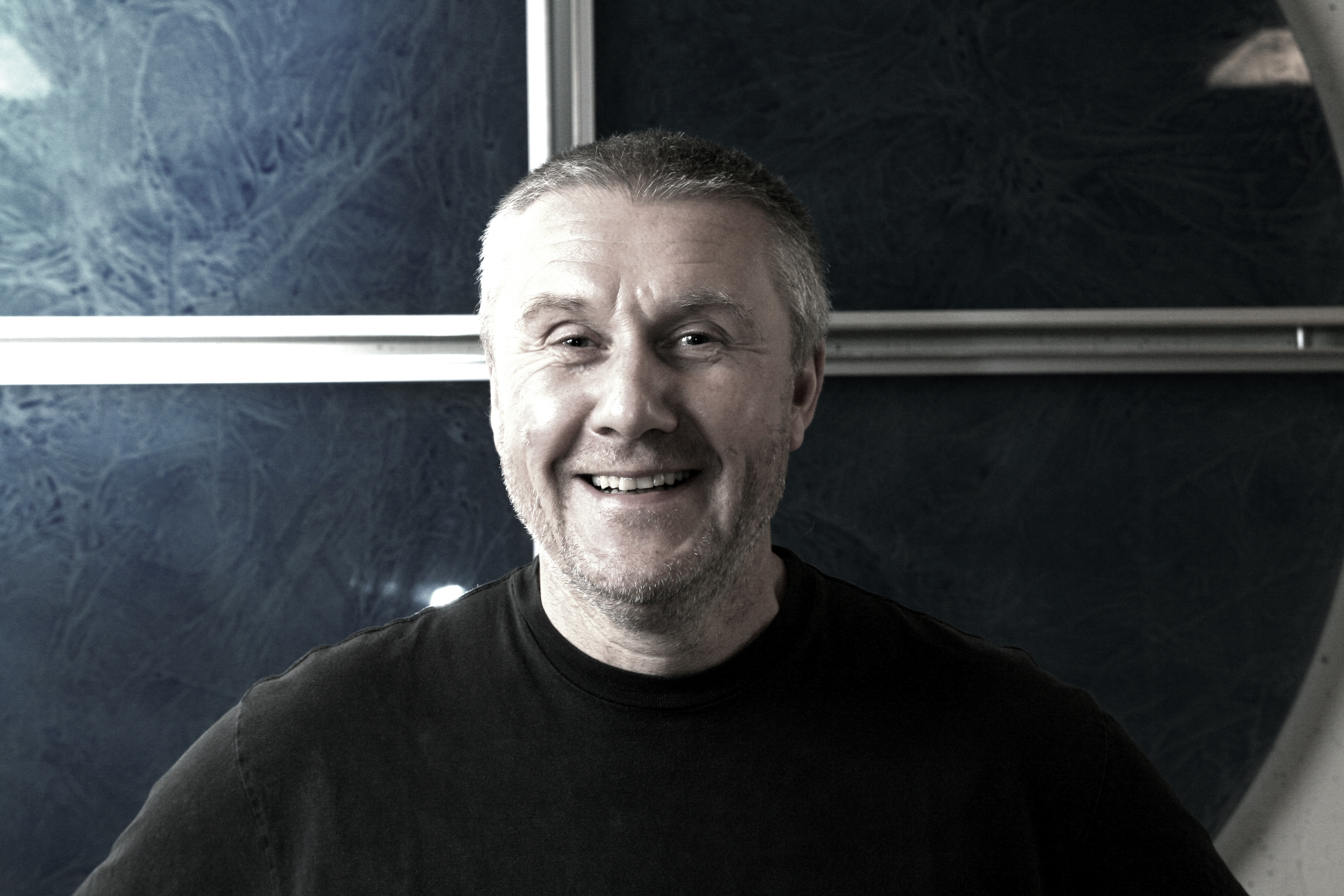 Portrait of Helmut Ulrich by Jens Kron